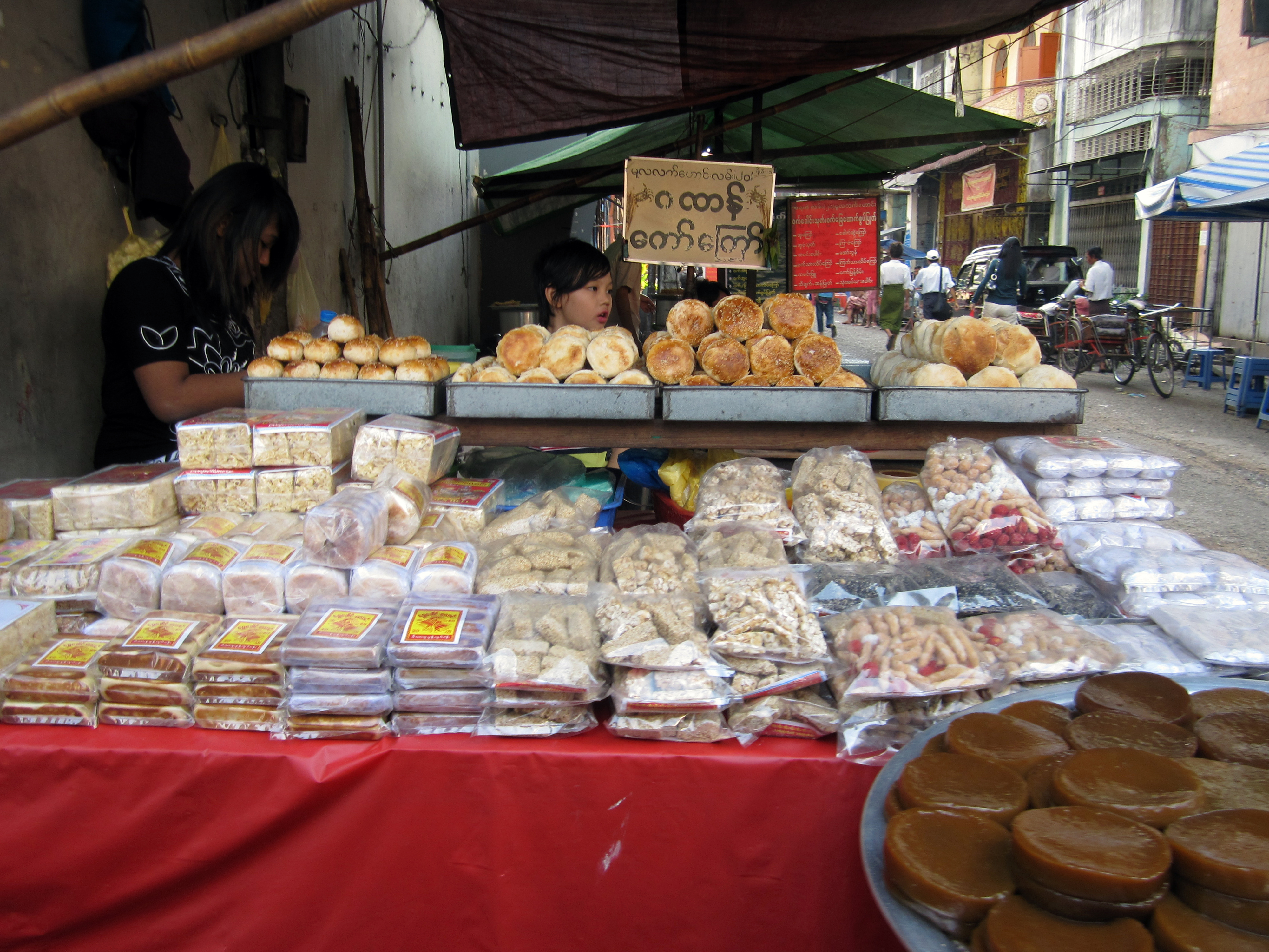 A street-side stand in Yangon's Chinatown (Latha Township), sellilng Chinese pastries like niangao and buns